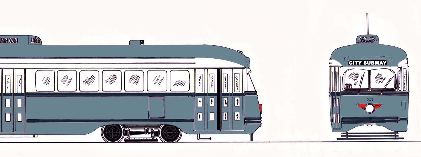 «Newark (Public Service Coordinated Transport) : 1st paint scheme» (original caption)